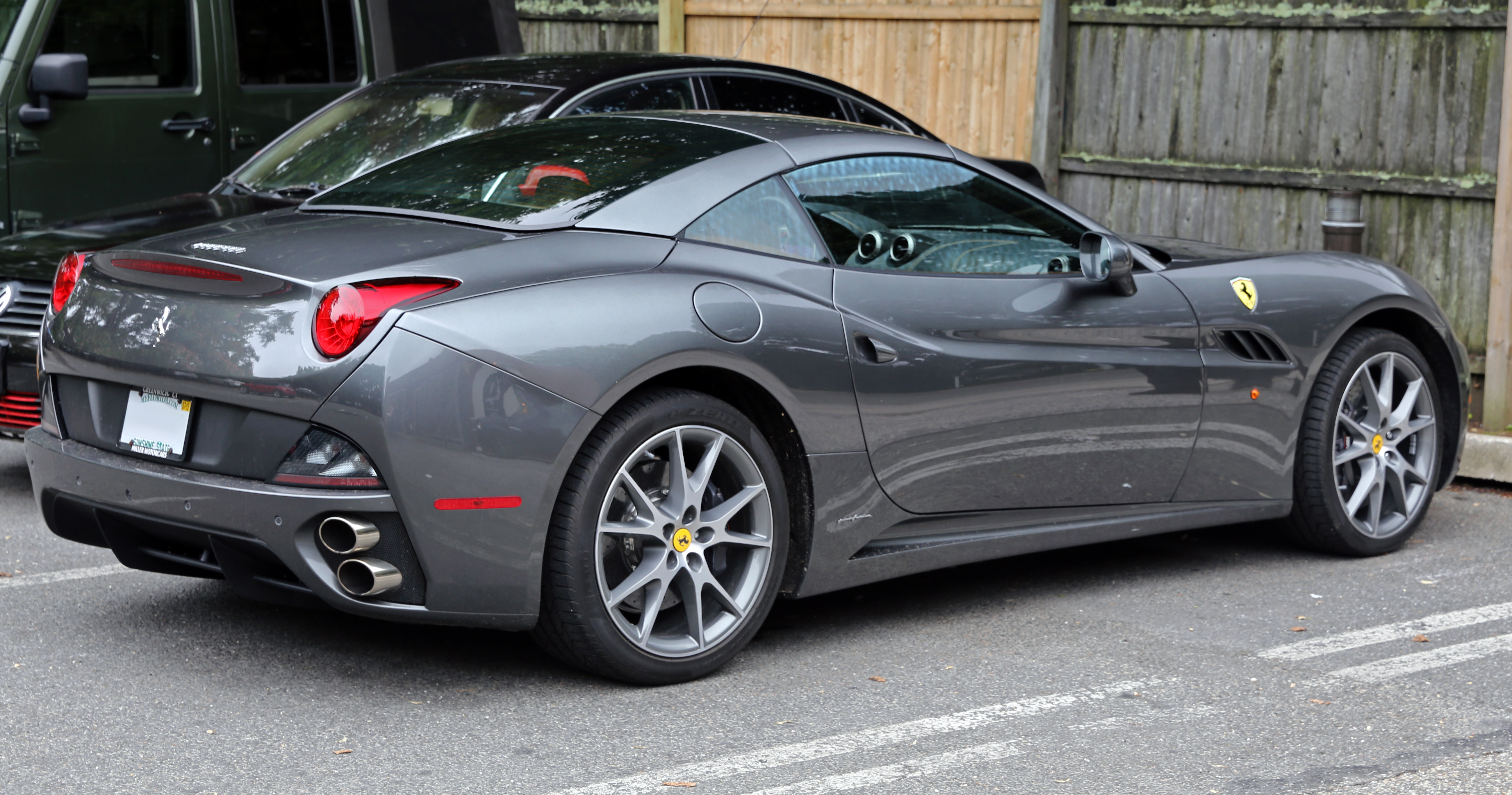 A 2014 Ferrari California, seemingly the last year of availability since it was replaced by the new California T.